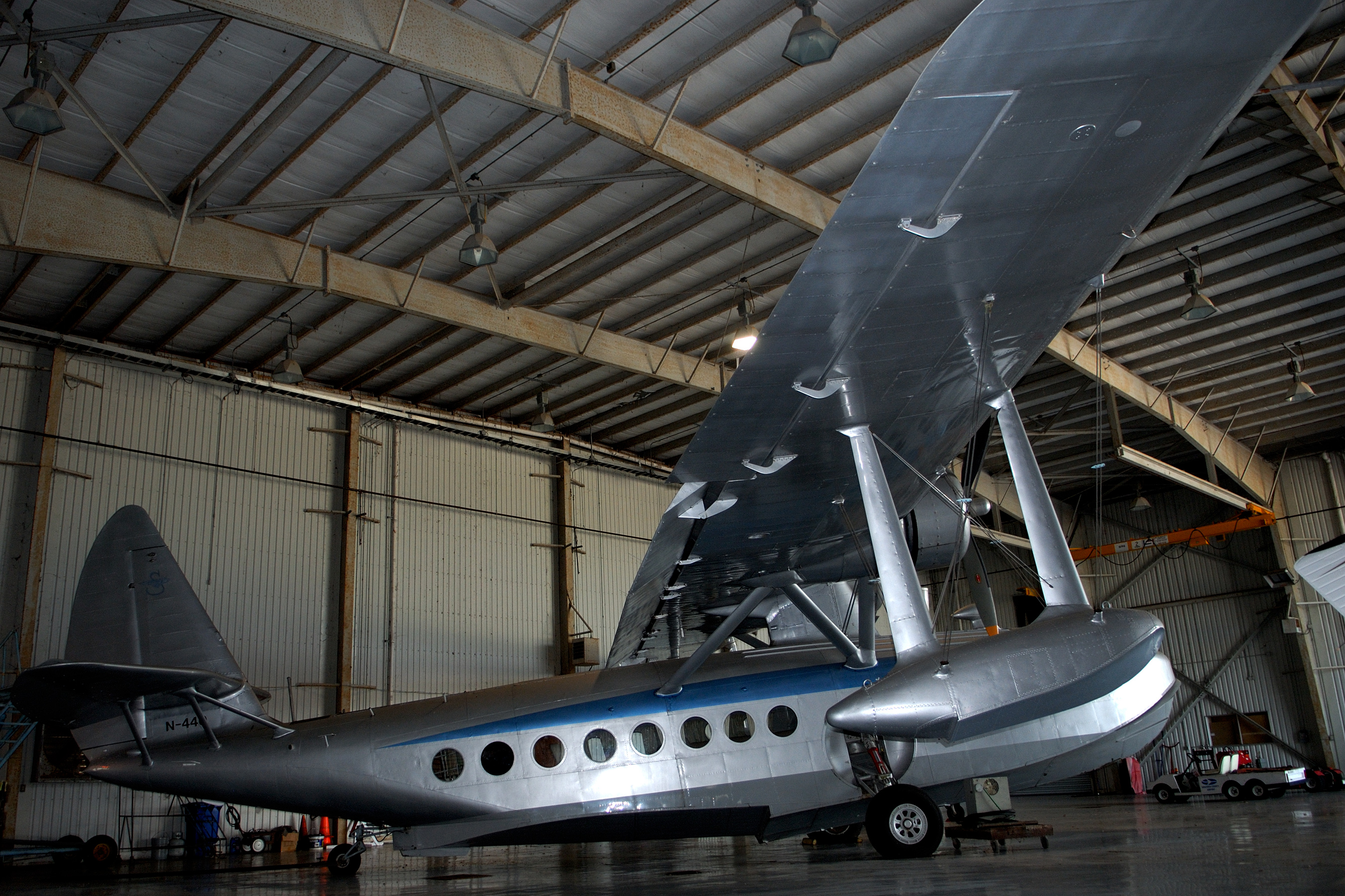 Howard Hughes' Spruce Goose test plane, the S-43 Sikorsky at Brazoria County Airport, Texas.